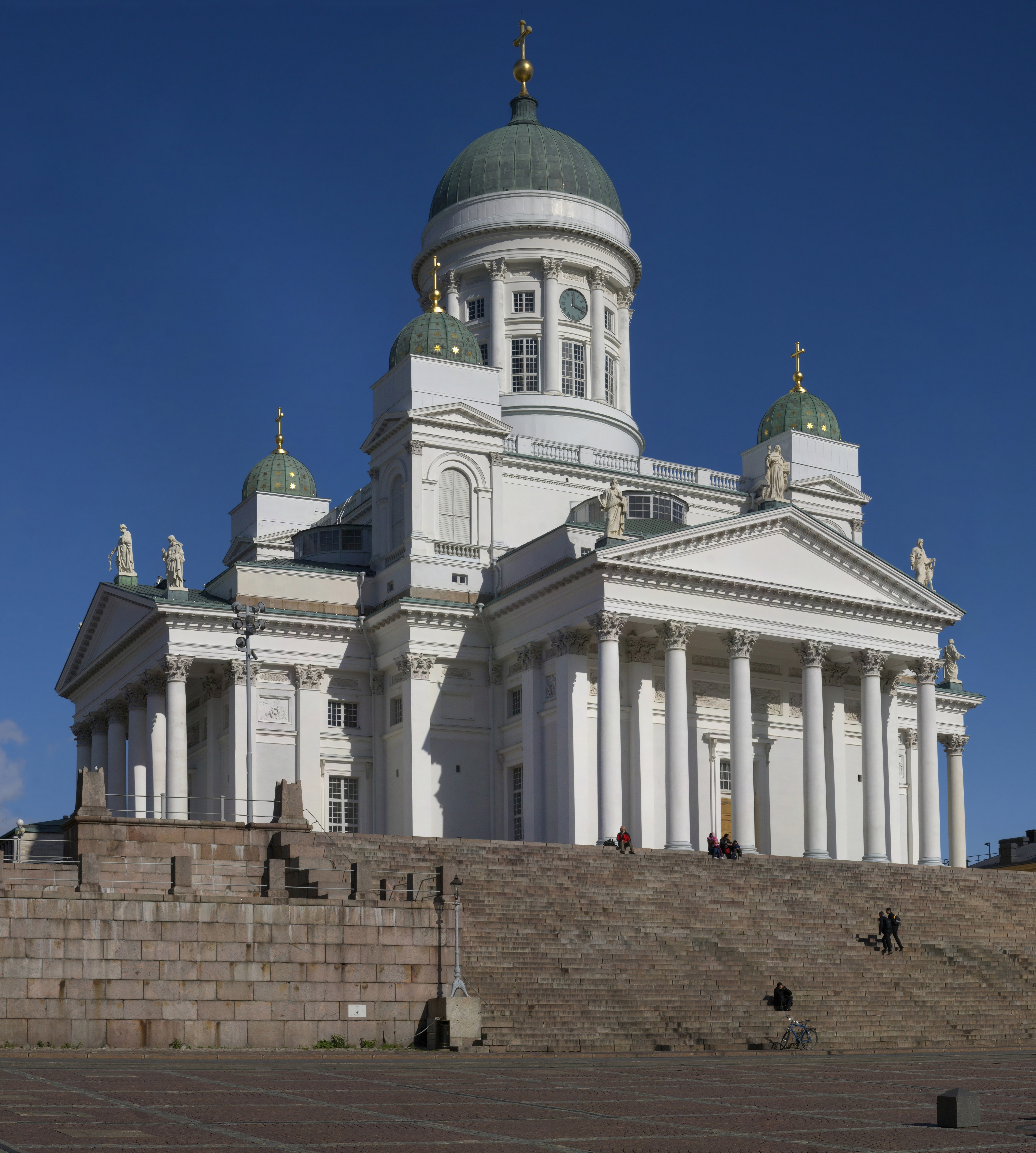 Helsinki Lutheran Cathedral in Helsinki, Finland, composed from 22 photographs.